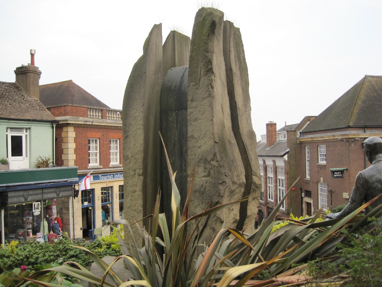 Photo of Malvern town centre at bellevue terrace showing the Enigma Fountain and statue of Edward Elgar